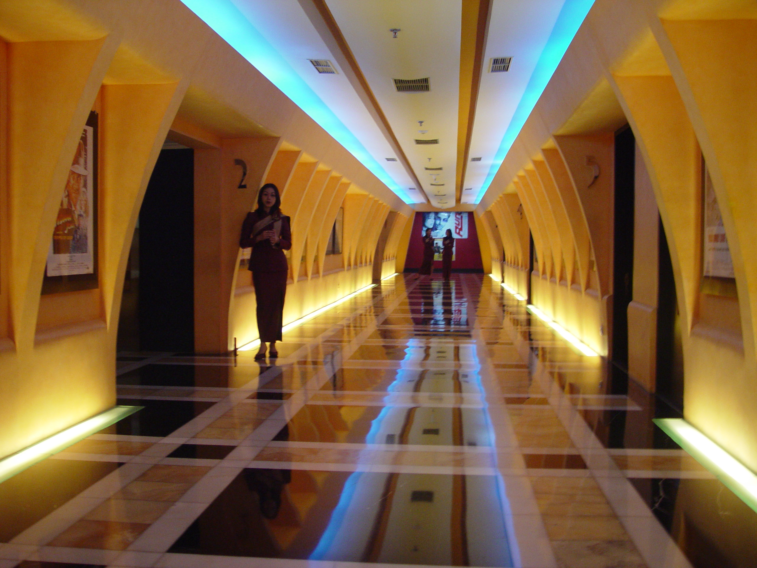 Mall cultural in Jakarta, Indonesia.